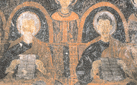 Saint Stephen Church in Kastoria Fresco Apostles Enthroned